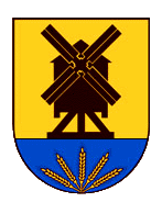 Coat of arms of the community Zschepplin in the district Nordsachsen in Saxony, Germany.